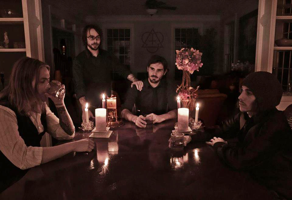 Trophy Scars promotional group photo from 2012. Other information This is a common file released by the band and photographer for free use and distribution.